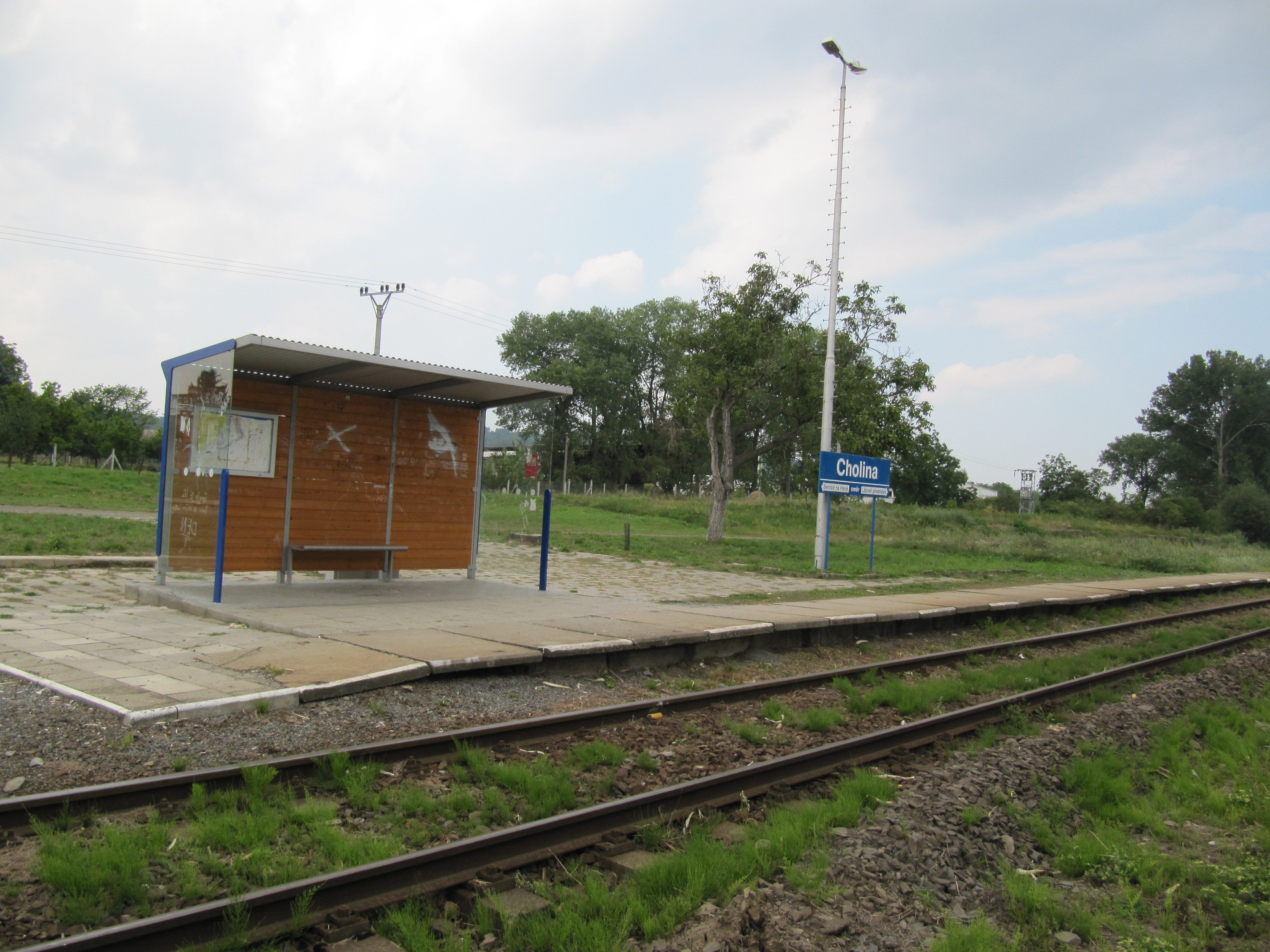 Cholina in Olomouc District, Czech Republic. Railway station.